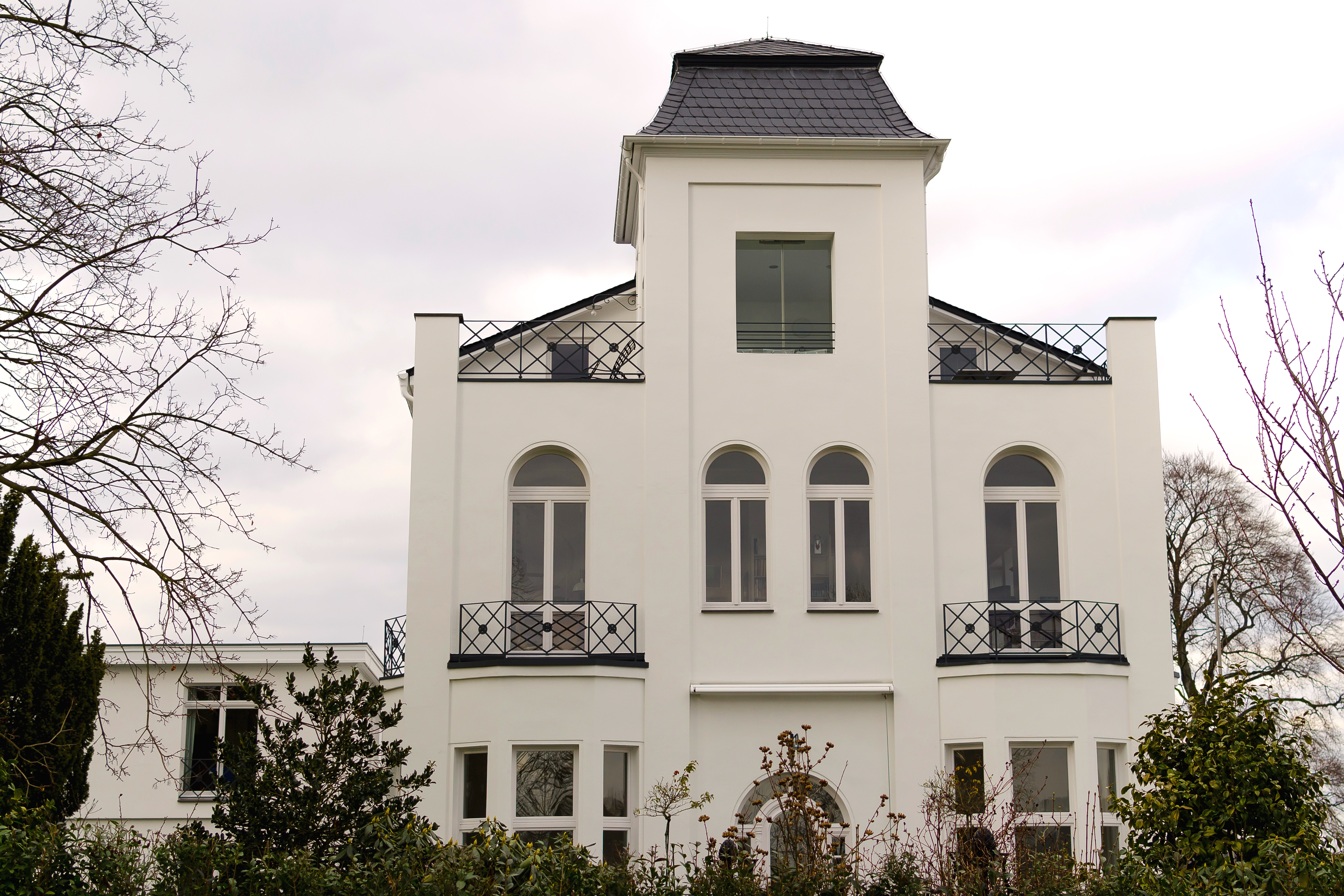 South side of Villa Cleff at the Plittersdorf Rhine riverbank in the municipality Bad Godesberg of Bonn